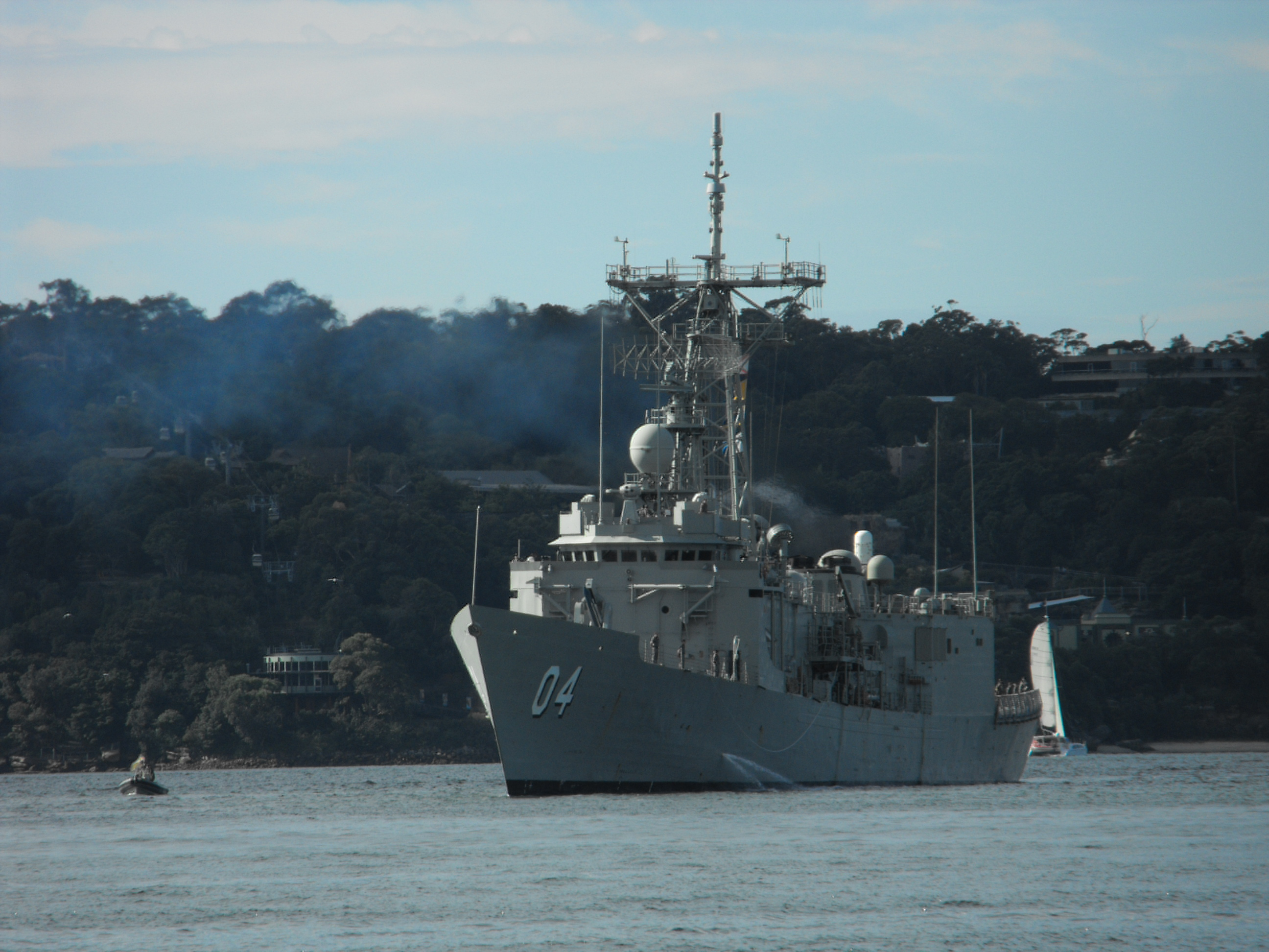 The Royal Australian Navy Adelaide class frigate HMAS Darwin underway in Sydney Harbour. The frigate is returning to Fleet Base East. Taronga Zoo is in the background.